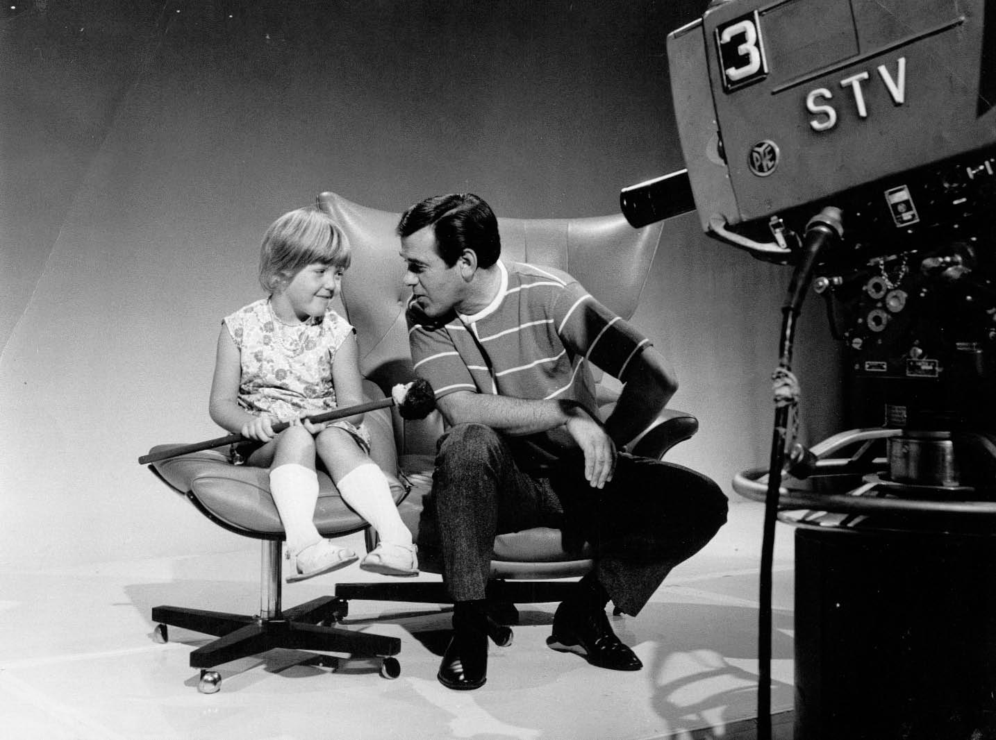 On the set of STVs Cartoon Cavalcade